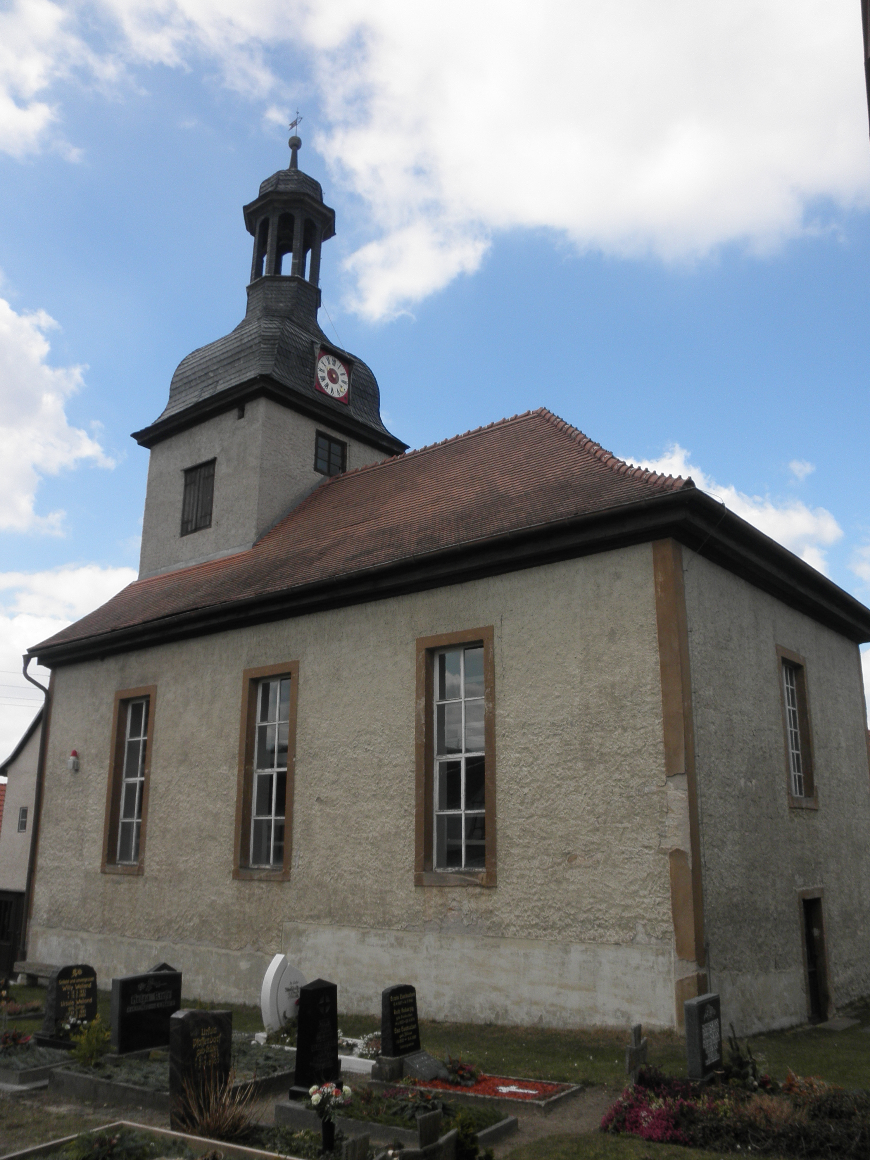 Church in Lindig in Thuringia